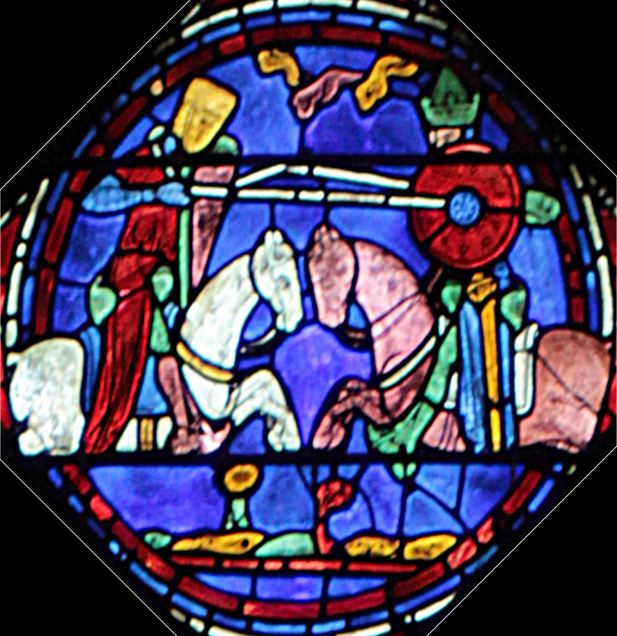 The Legends of Charlemagne (ambulatory, bay 7).